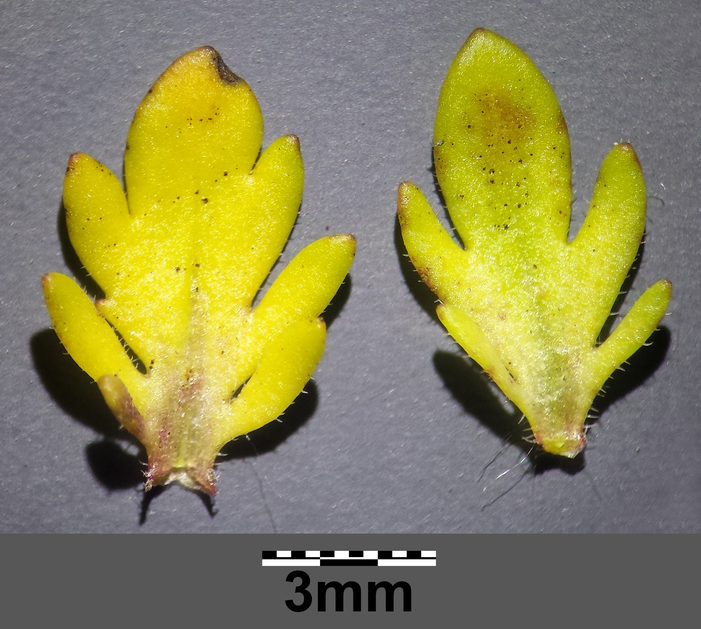 Leaves Taxonym: Veronica verna s. str. ss Fischer et al. EfÖLS 2008 ISBN 978-3-85474-187-9 Location: Hühnerbühel near Etzmannsdorf, district Horn, Lower Austria - ca. 350 m a.s.l. Habitat: acid dry grassland